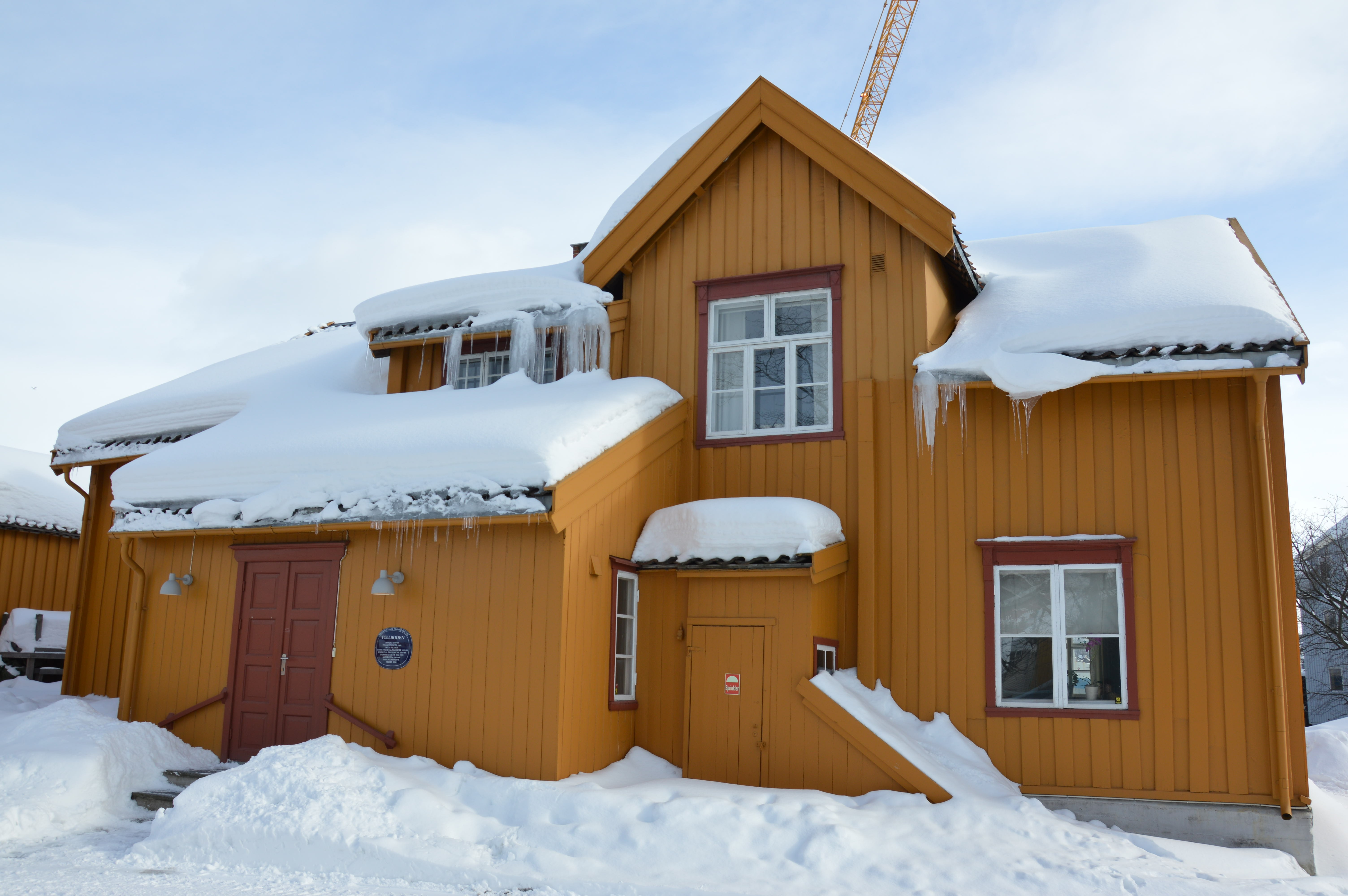 Tromsø Customs house (1789 to 1793); Customs Office (to 1840); Housing (to 1873); Municipal Primary School from 1874 to 1881, Municipal Drafting School from 1881 to 1886, Epidemic Lazaretto 1886-1949, Retirement home from 1949 to 1968, City Museum 1968-1996